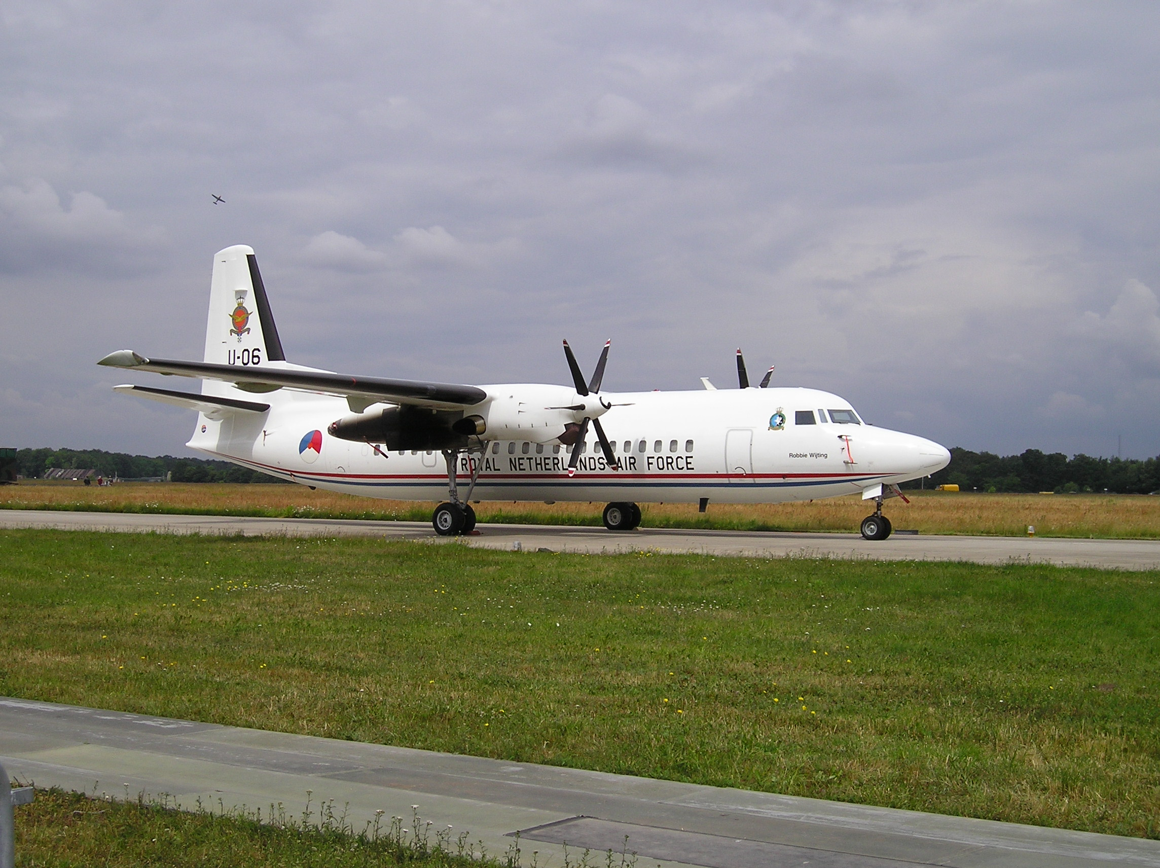 Open day of the Royal Netherlands Air Force (2004) at airbase Volkel - Fokker 50